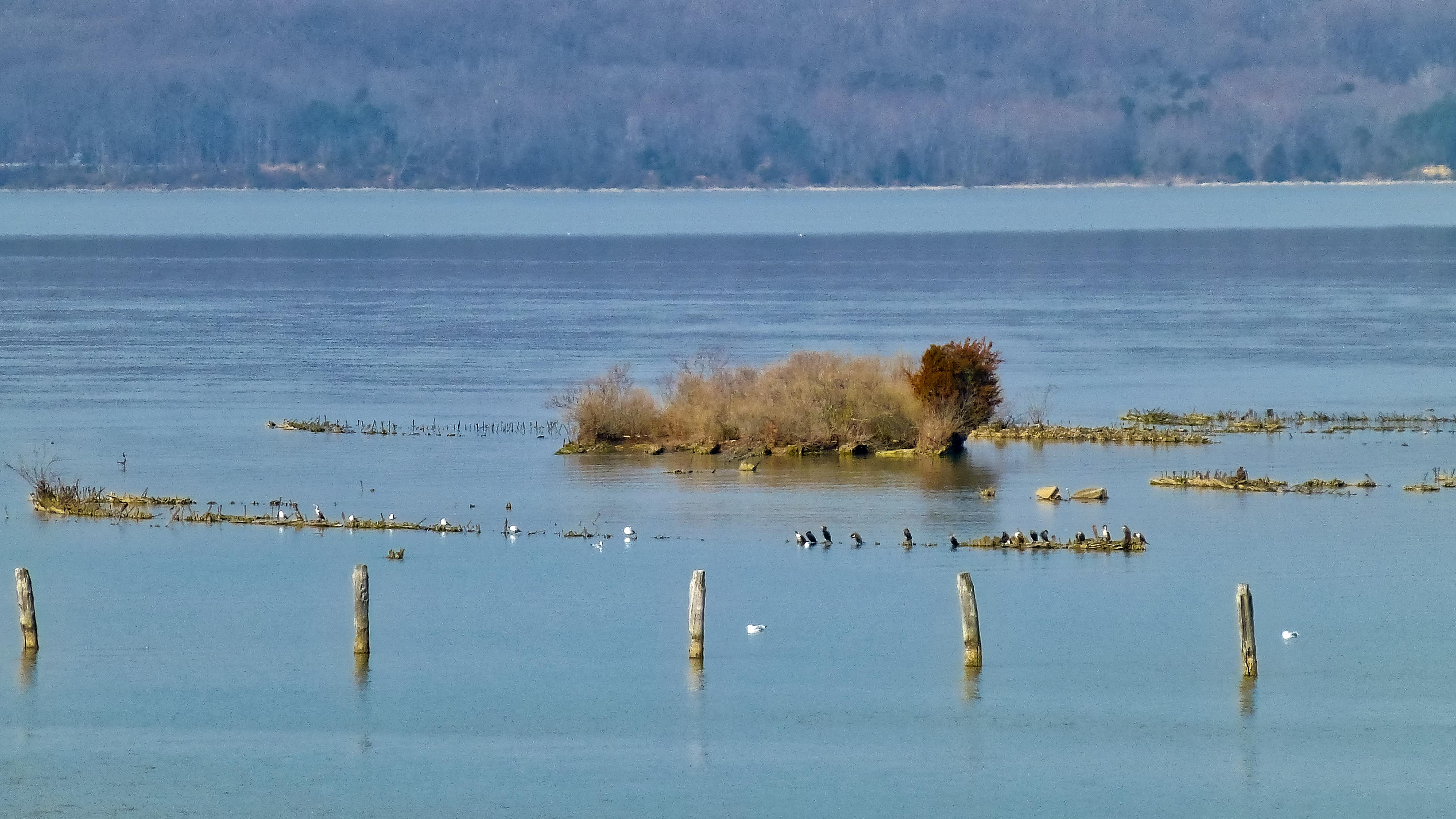 Mallows Bay Park Feb 20, 2017, 10-46 AM_edit